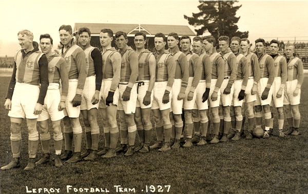 An Australian rules football team of Lefroy F.C.